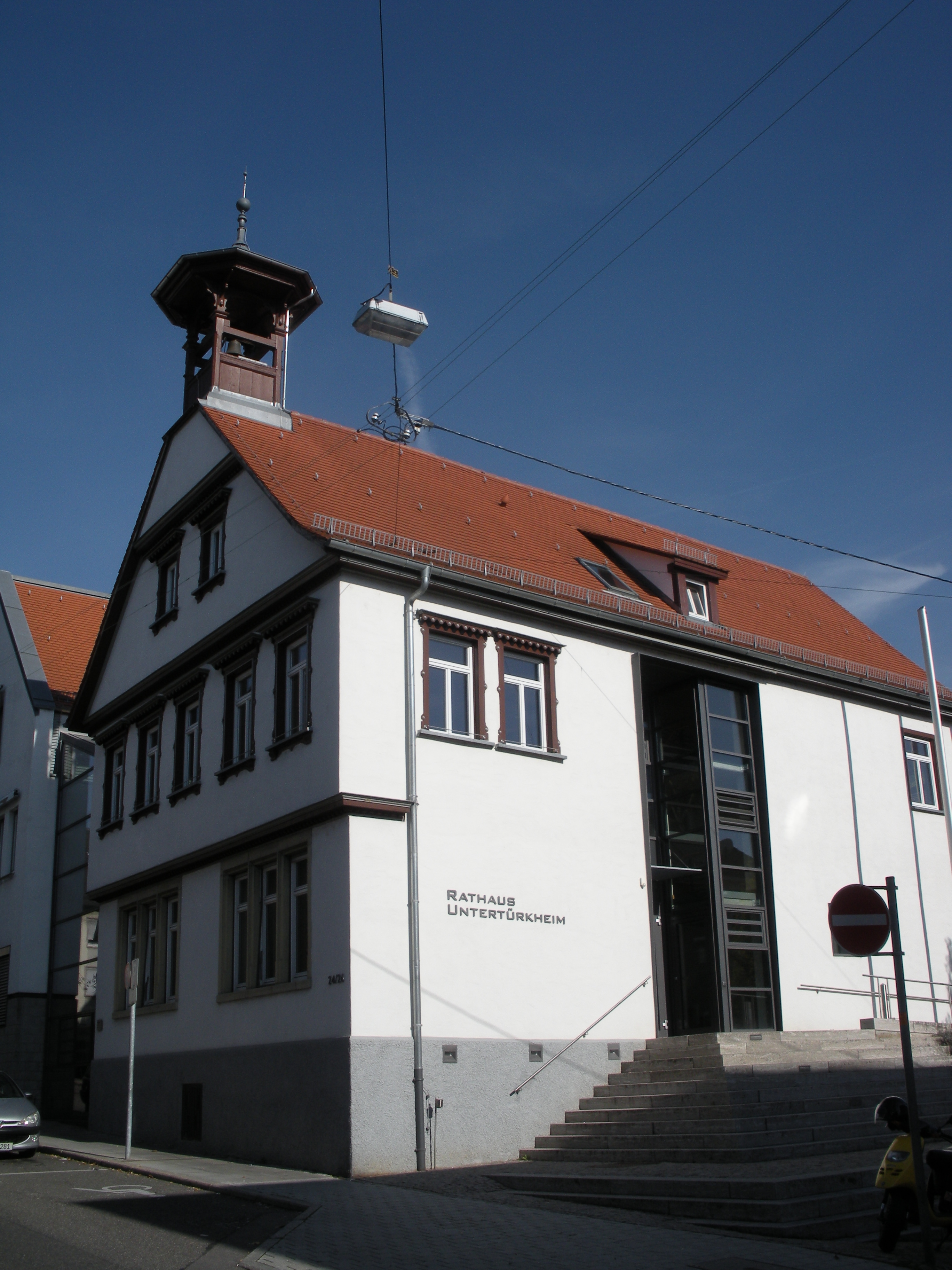 Town Hall in Stuttgart-Untertürkheim